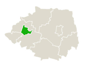 Outline of Gmina Bransk